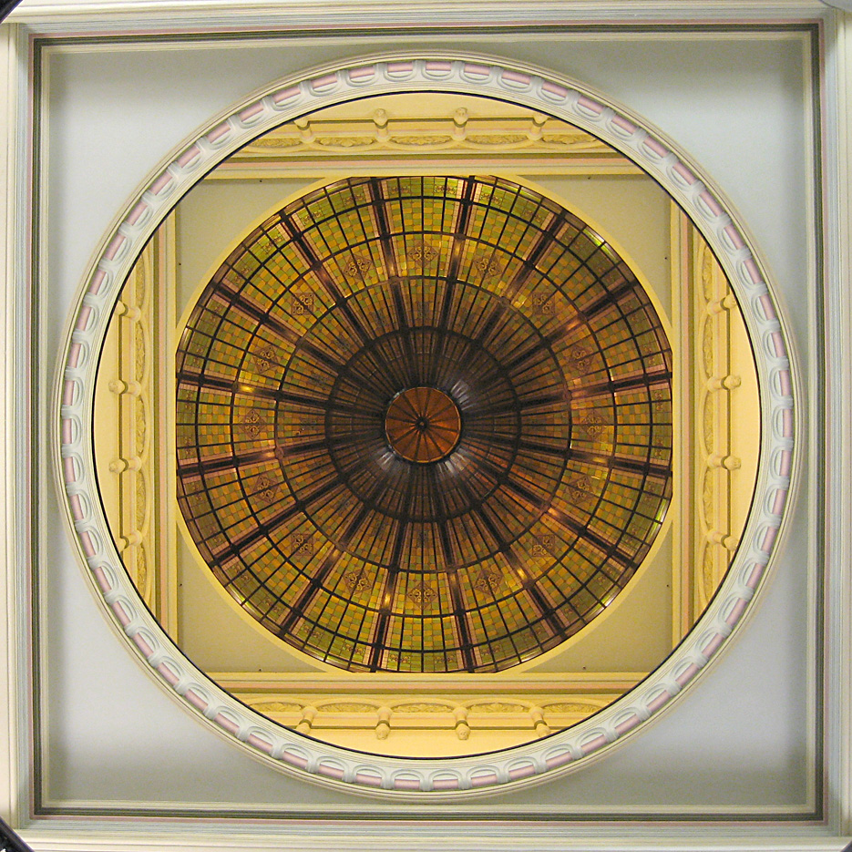 Ceiling of QVB, Sydney